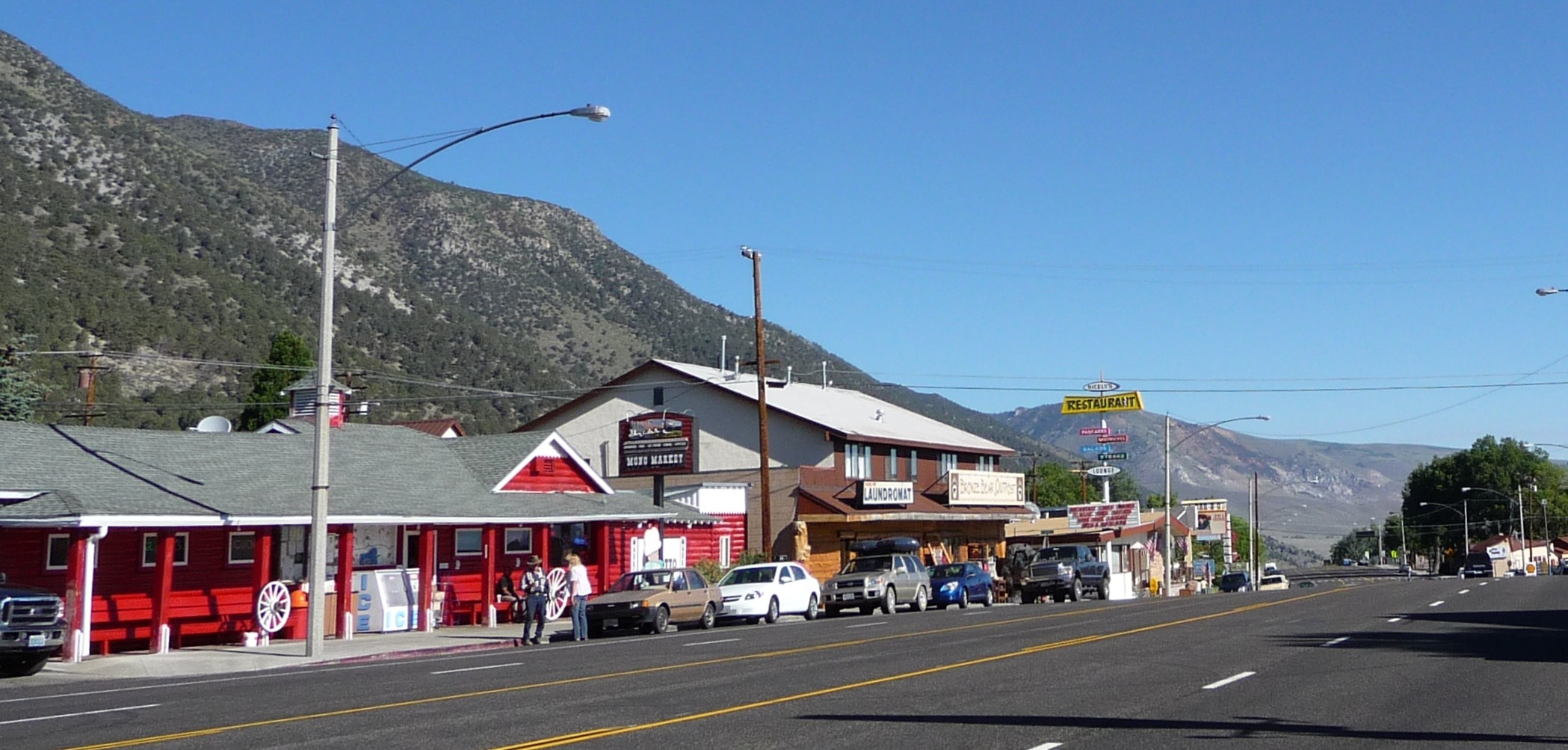 Lee Vining, California